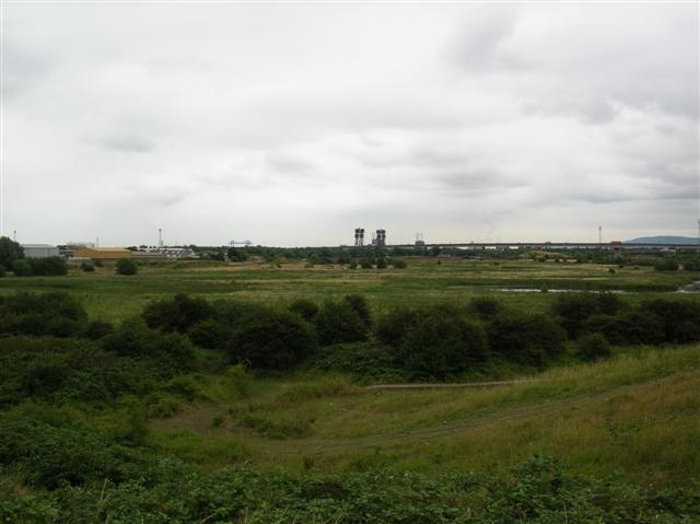 Portrack Nature Reserve. Alongside the Tees Barrage and the campsite, this area of land is a nature reserve.